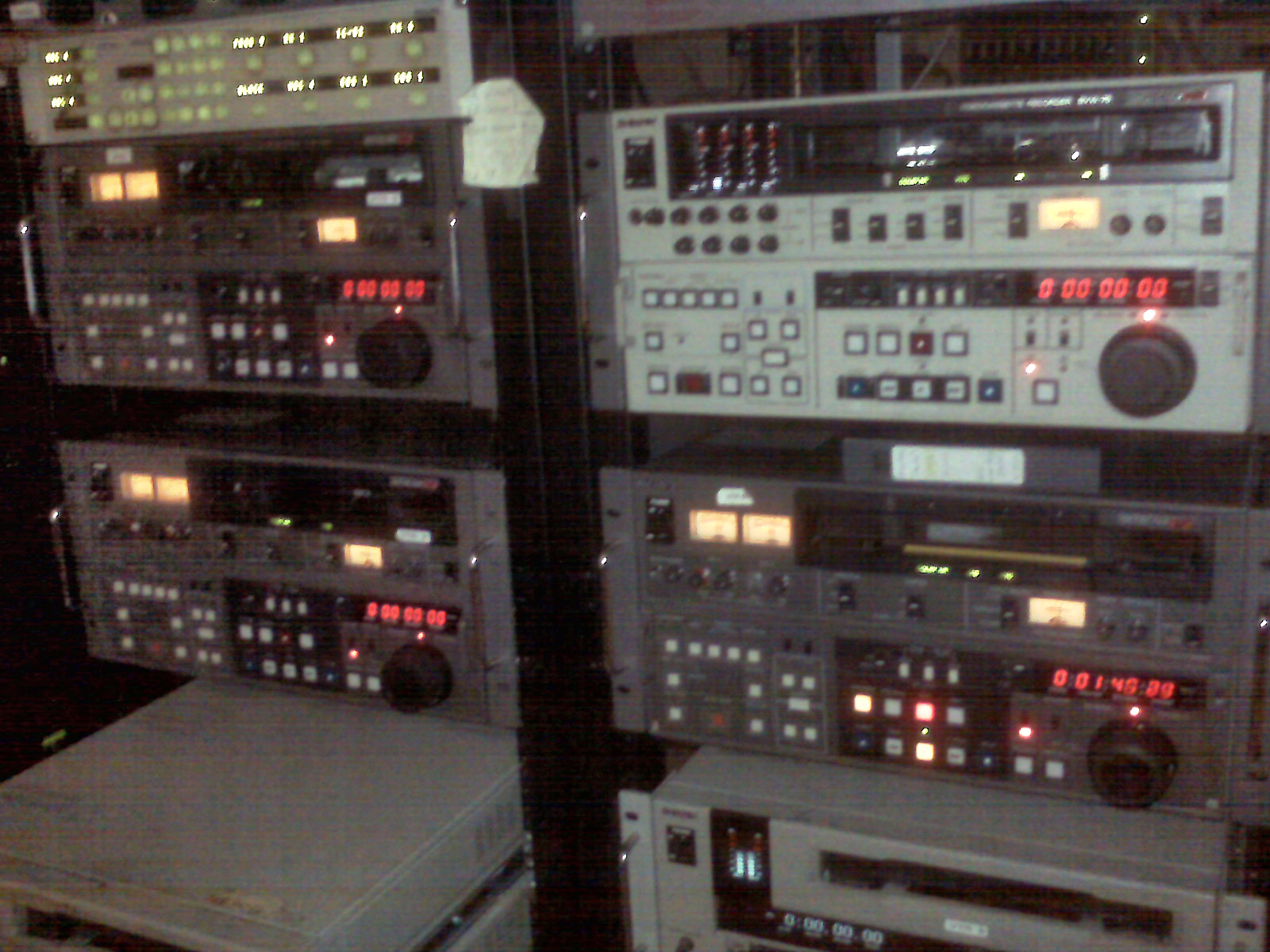 Six Sony BetacamSP VTRs, each representing the top-of-the-line of the three model lines, in daily use in Nexstar Broadcasting's West Central Texas master control hub facility (KTAB-TV/KRBC-TV/KLST-TV/KSAN-TV) in Abilene, Texas. Pictured are three "professional" PVW-2800's, two "industrial" UVW-1800's, and one "broadcast" BVW-75...the most expensive of all.